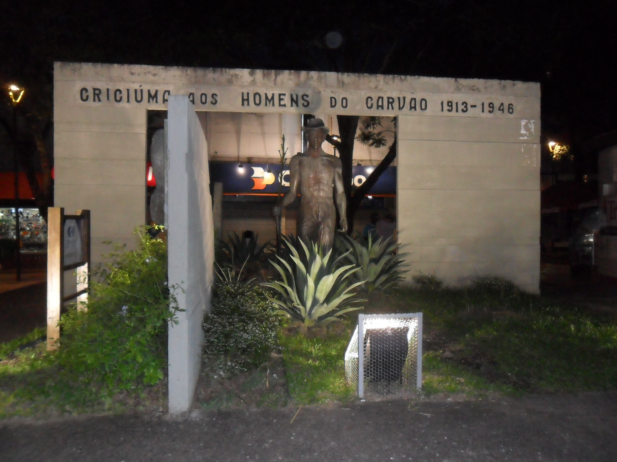 The monument of the city of Criciúma in honor of the Coal Men.